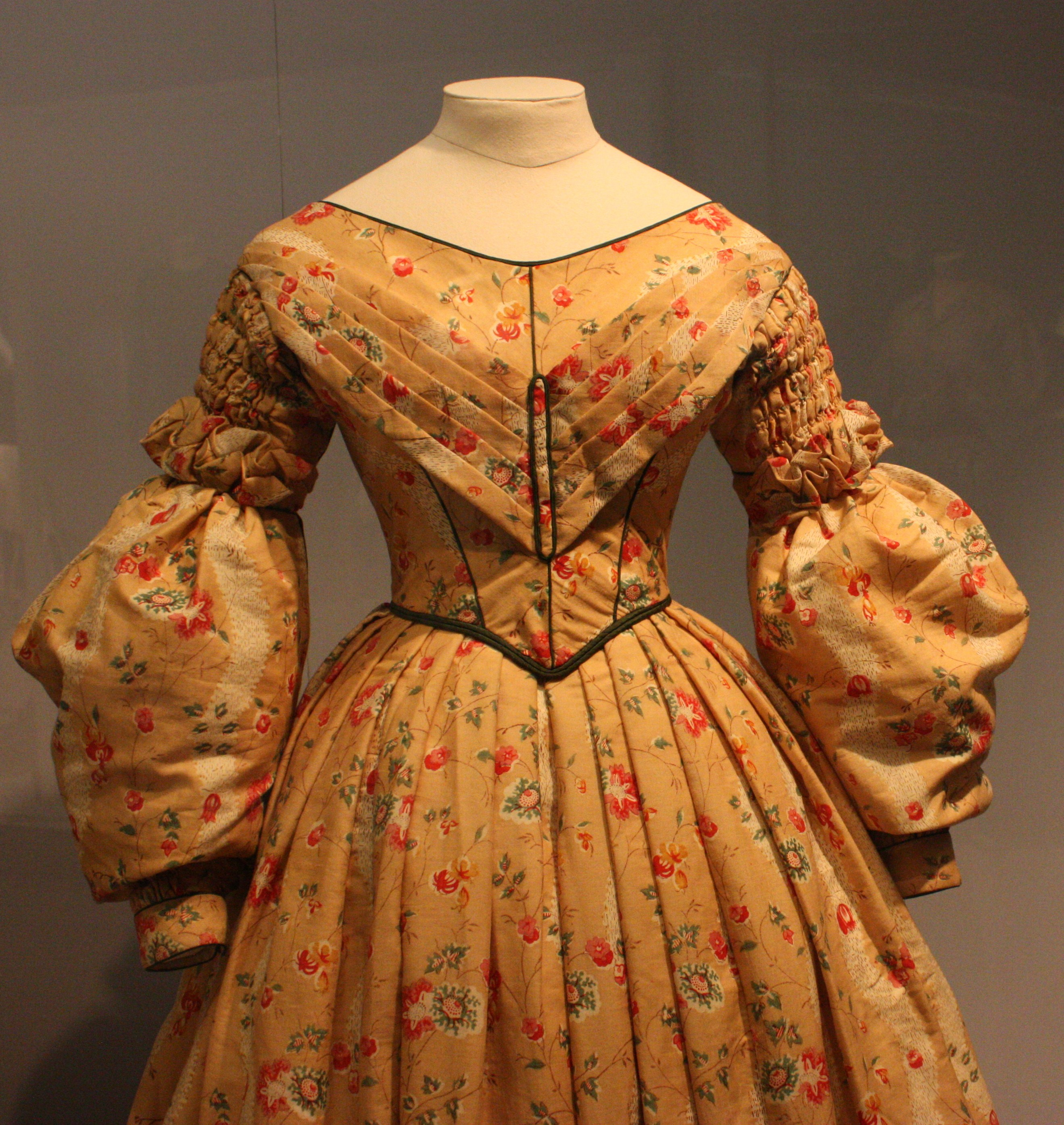 Day Dress 1836-40 Britain Printed cotton edged with silk satin piping and lined with linen and cotton. Soft colours and floral patterns can be seen in many 1830\'s day dresses. Here, pink red and white flowers harmonise with the brown ground and green piping. The construction of the sleeves is also interesting as they are lightly gathered at the top and loose around the elbow. This accentuates the slope of the shoulder and the tightness of the wrist. Given by Miss G.E.Hill Collection ID: T.32 - 1940 This photo was taken as part of Britain Loves Wikipedia in February 2010 by Valerie McGlinchey.